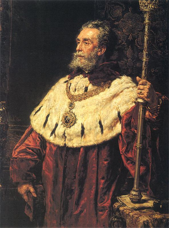 Portrait of Stanisław Tarnowski by Jan Matejko